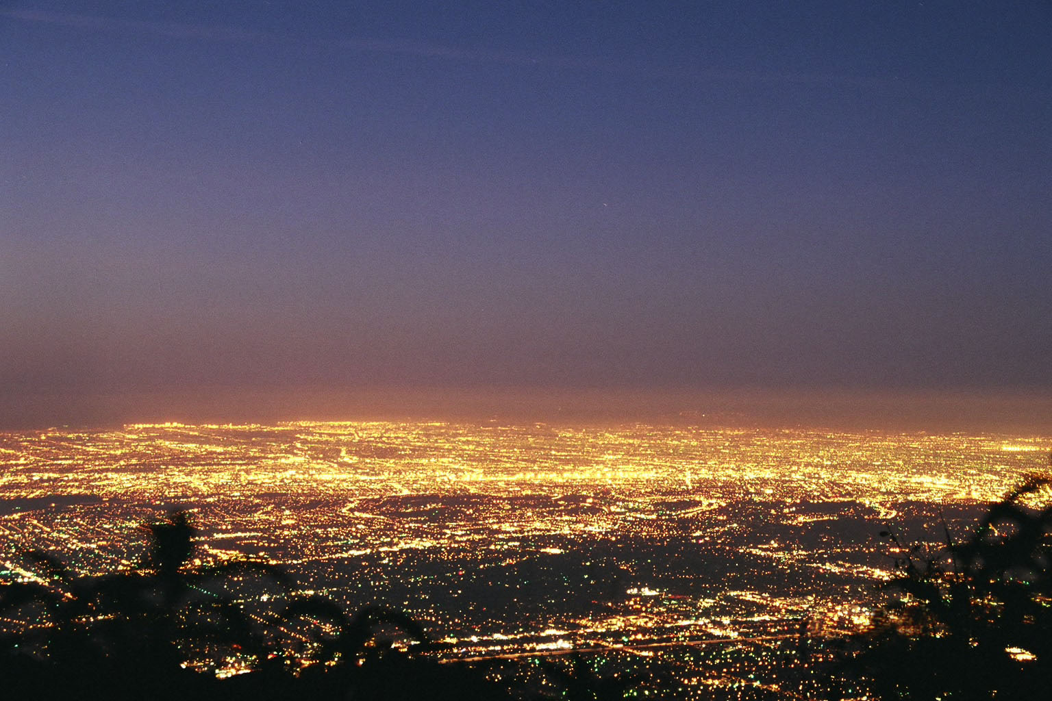 Photographed and uploaded by user:Geographer. Los Angeles Basin as seen from Mount Wilson at dawn, Dec 12, 2002